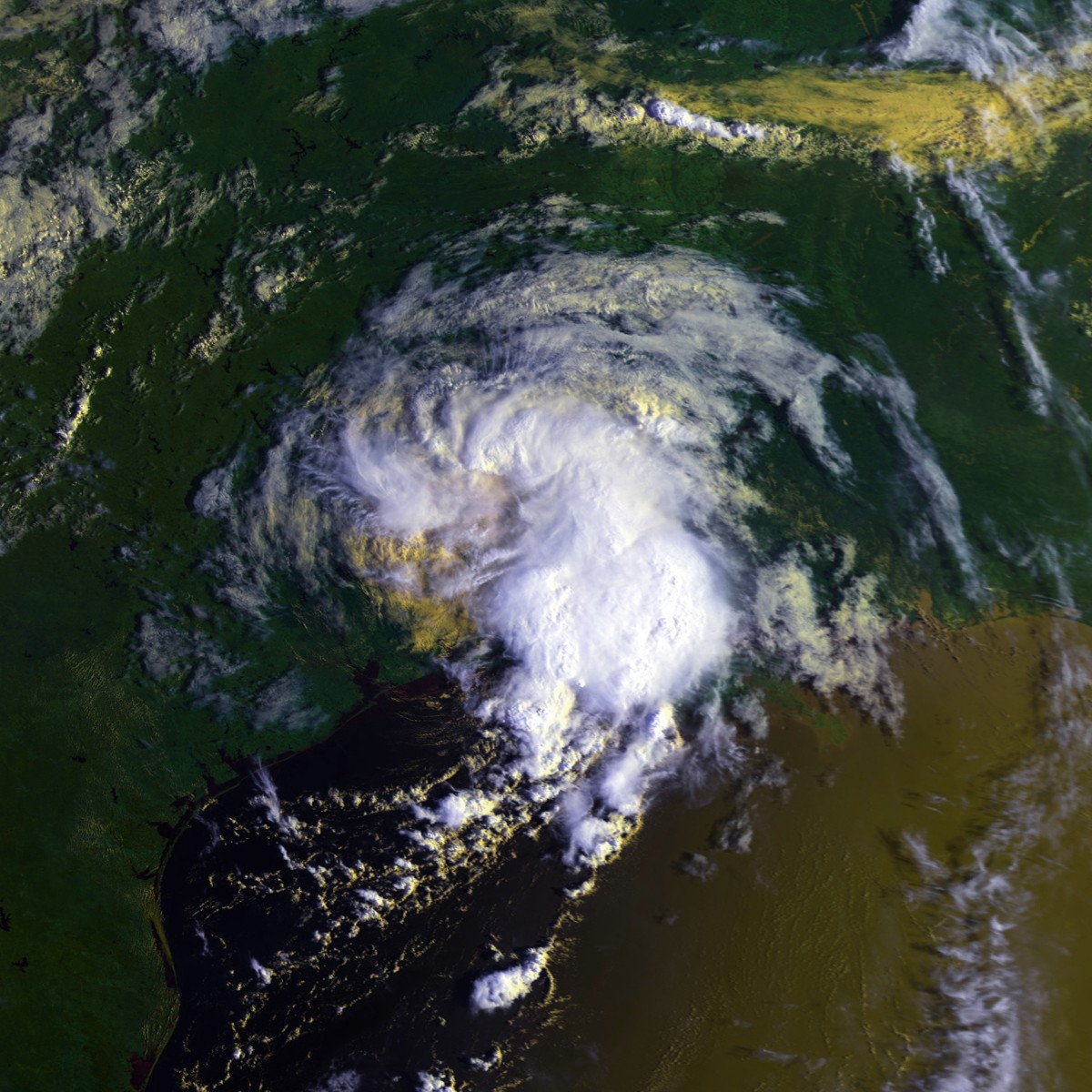 An unnamed tropical storm on August 10 at approximately 1422 UTC. This image was produced from data from NOAA-10, provided by NOAA.